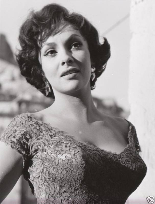 Gina Lollobrigida in the 1960s.